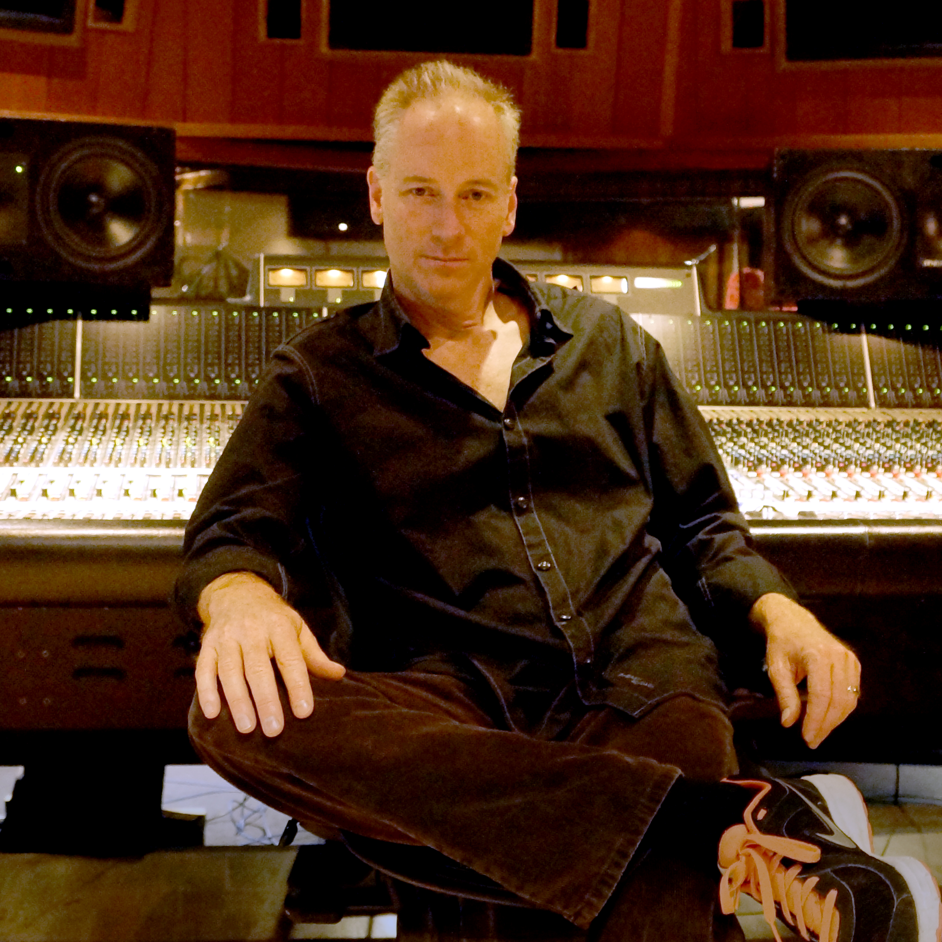 Recording artist KC Porter. KC is a renowned record producer, singer, songwriter, arranger, composer and Grammy Award winner.